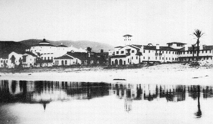 Hotel Playa Ensenada in 1930